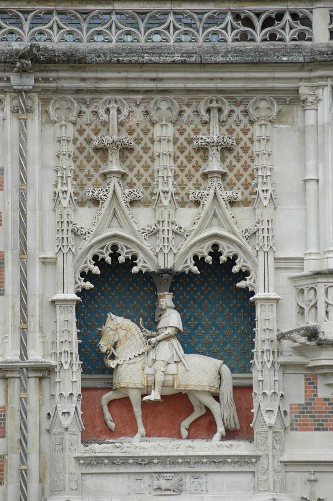 Equestrian statue of Louis XII above the portal of the château de Blois